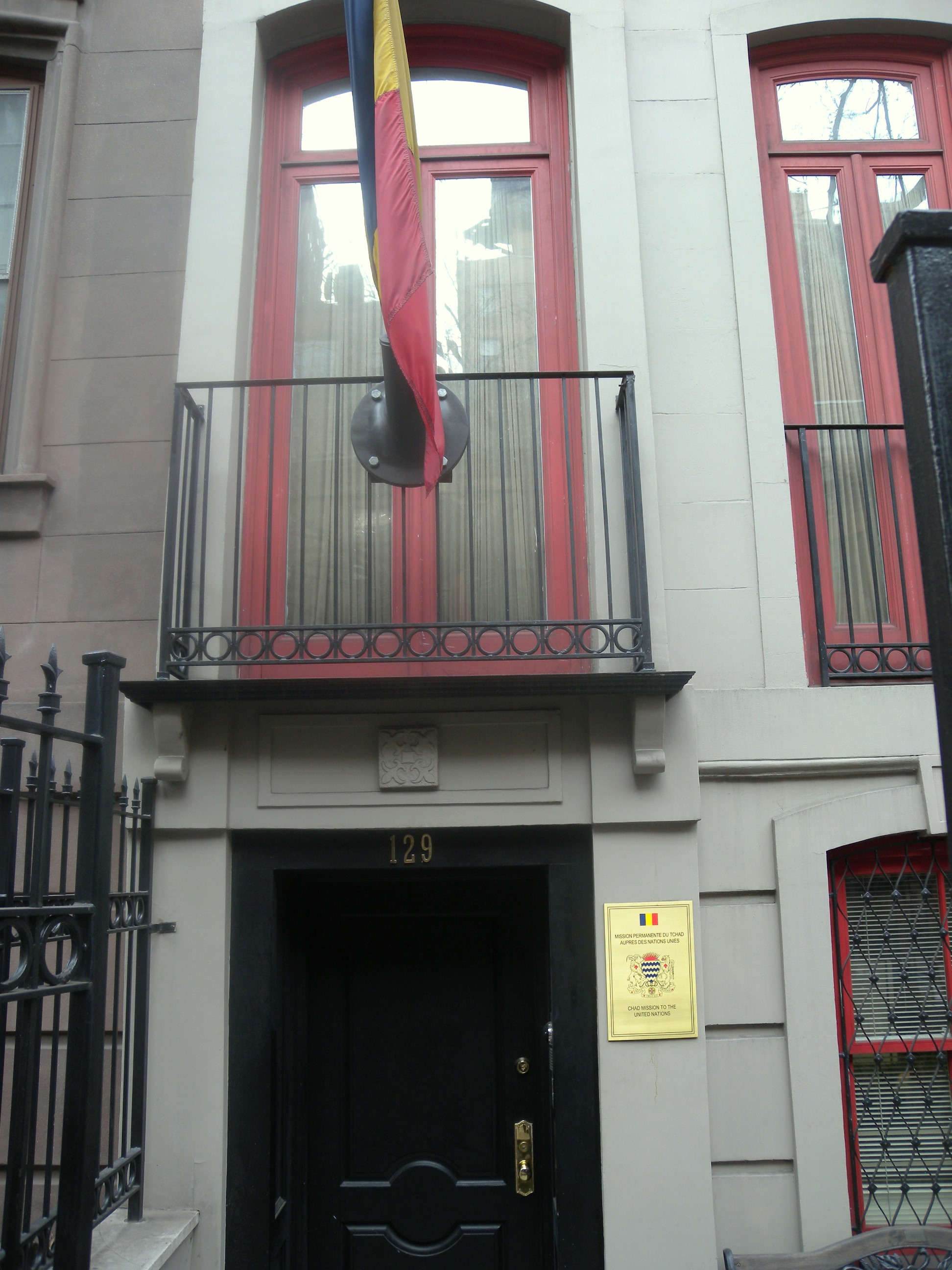 Looking north from 36th St at Chad Mission to the United Nations on a cloudy afternoon.